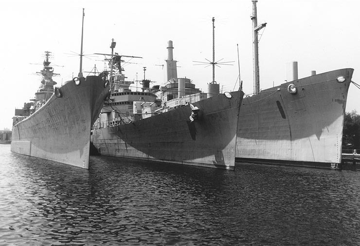 Three stricken cruisers await disposal in the Reserve Basin of the Philadelphia Naval Base, Pennsylvania (USA), in October 1978. The ships, whose hull numbers have been painted out, are (from left to right): USS Newport News (CA-148), USS Springfield (CG-7) and USS Northampton (CC-1).